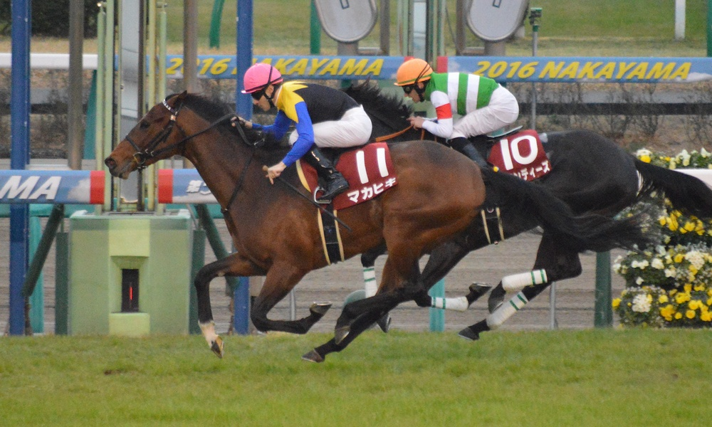 Japanese race horse Makahiki at Nakayama racecourse. Nakayama (JPN) 06 Mar 2016 Hochi Hai Yayoi Sho (Japanese 2,000 Guineas Trial) (Grade 2) (3yo) (Turf) RankHorse NameOddsAgeWgtTrainerJockey1stMakahiki (JPN)8/5C38-11Yasuo TomomichiChristophe-Patrice Lemaire2ndLeontes (JPN)9/10FC38-11Katsuhiko SumiiMirco Demuro3rdAir Spinel (JPN)16/5C38-11Kazuhide SasadaYutaka Take